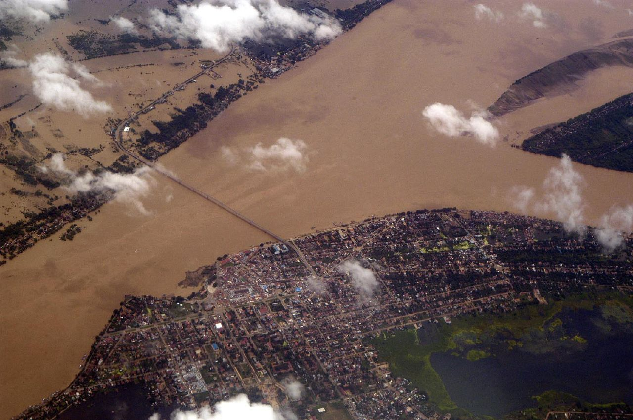 Mekong flooding at Kompong Cham (upstream from Phnom Penh).